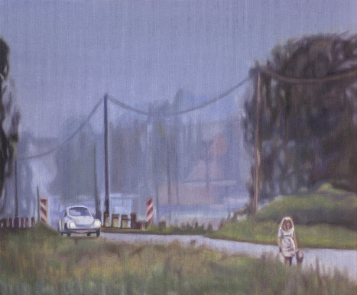 Secondary Road, Niederrhein, by Sylvester Engbrox, 2009, oil on canvas, 54 x 65 cm